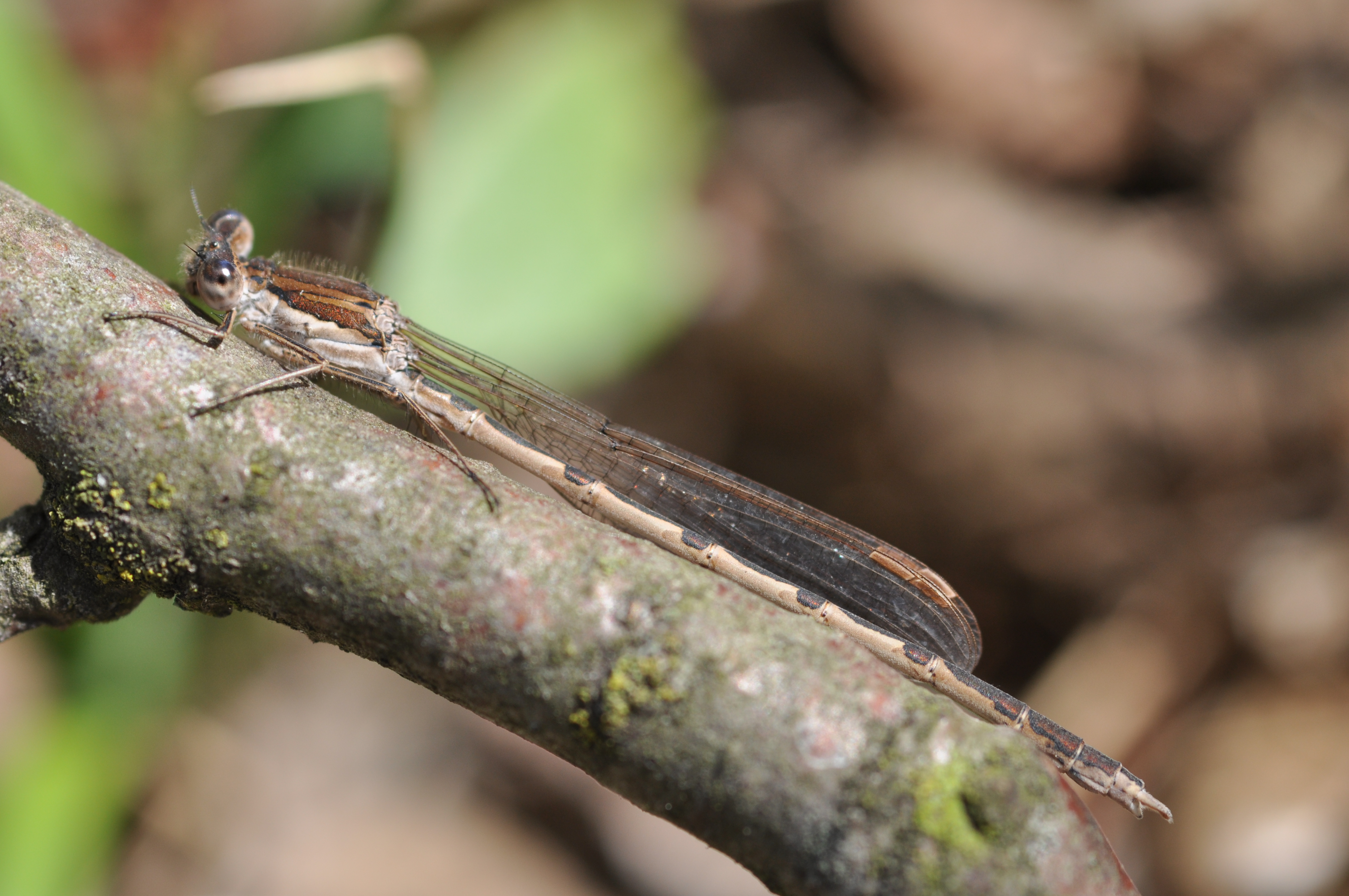 Common winter damselfly in Kirchwerder, Hamburg.